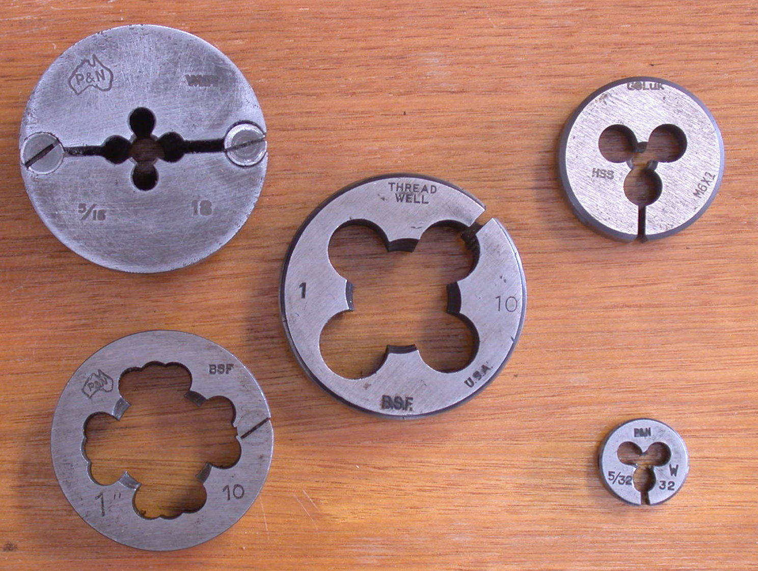 Various styles and pitches of threading dies. Used in metalworking to manufacture threads on rod..